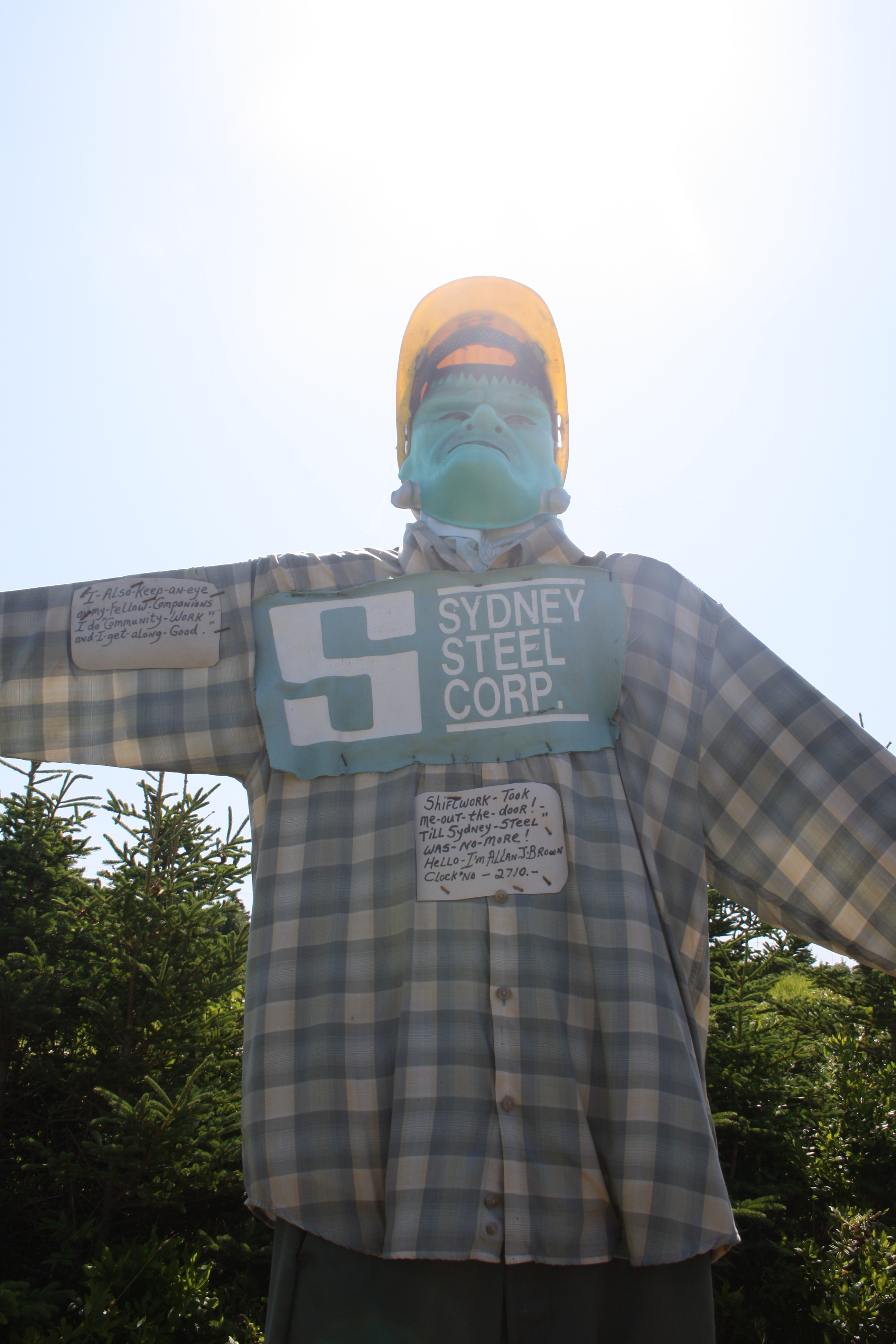 A scarecrow of a Sydney Steel Corporation worker at Joe's Scarecrow Village near Cheticamp, Nova Scotia, Canada.